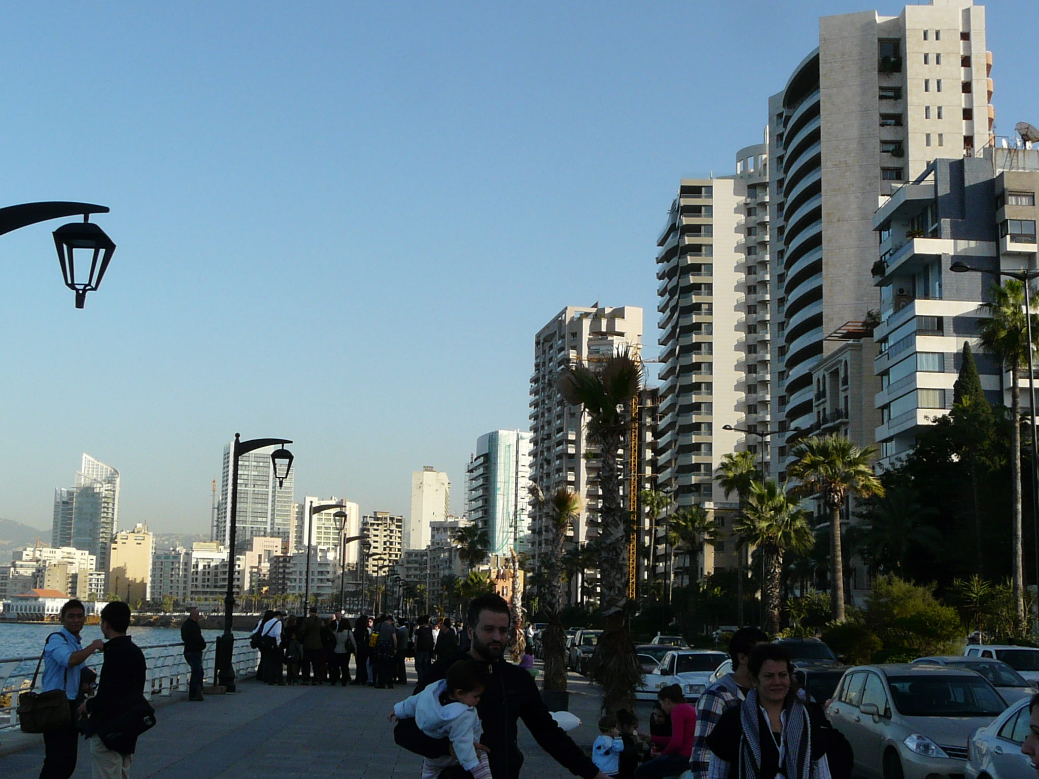 Corniche